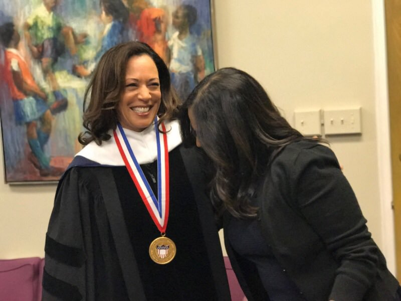 Robed and ready for @HowardU commencement!